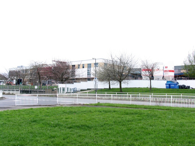 Chaucer School Renovation of buildings at the Chaucer School,on Wordsworth Avenue at Parson's Cross.